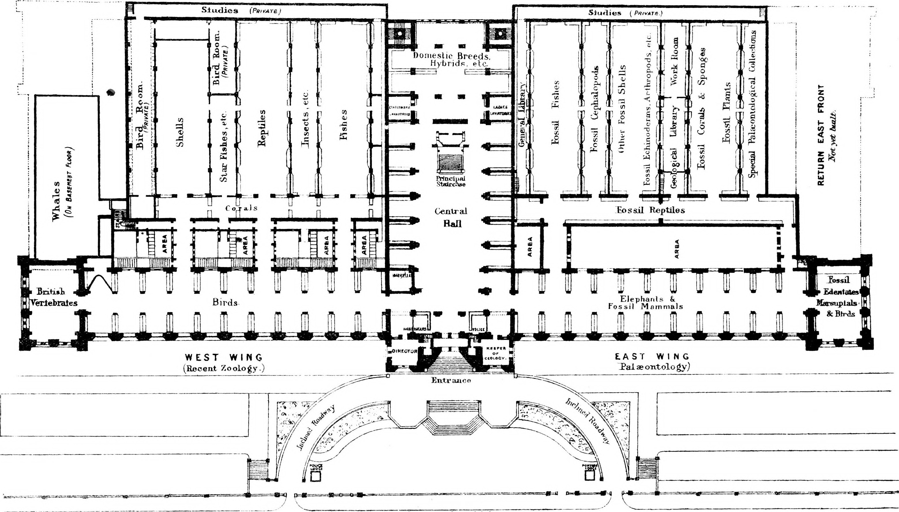 Title: A general guide to the British Museum (Natural History) ... With plans and a view of the building Year: 1906 (1900s) Authors: British Museum (Natural History) Subjects: British Museum (Natural History) Publisher: London, Printed by order of the Trustees (by W. Clowes and Sons, Limited) Text Appearing Before Image: BRITISH MFSEUM (millRAL HISTORY) Ground EIo or Scale of'i ftet. Text Appearing After Image: Tm lbutcatf/£w Awrw* CifriiHuoii